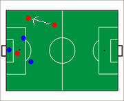 sketch of passive offside position